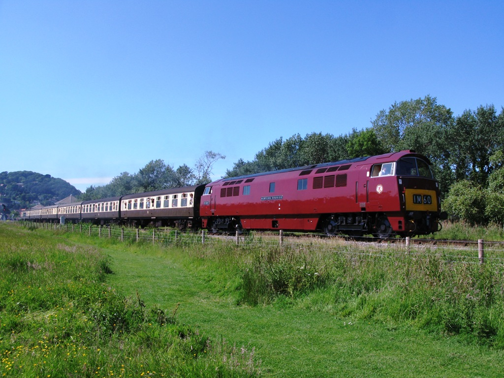 Class 52 diesel-hydraulic D1062 Western Courier sets off from Minehead station on the West Somerset Railway, England, with a train to Bishops Lydeard.